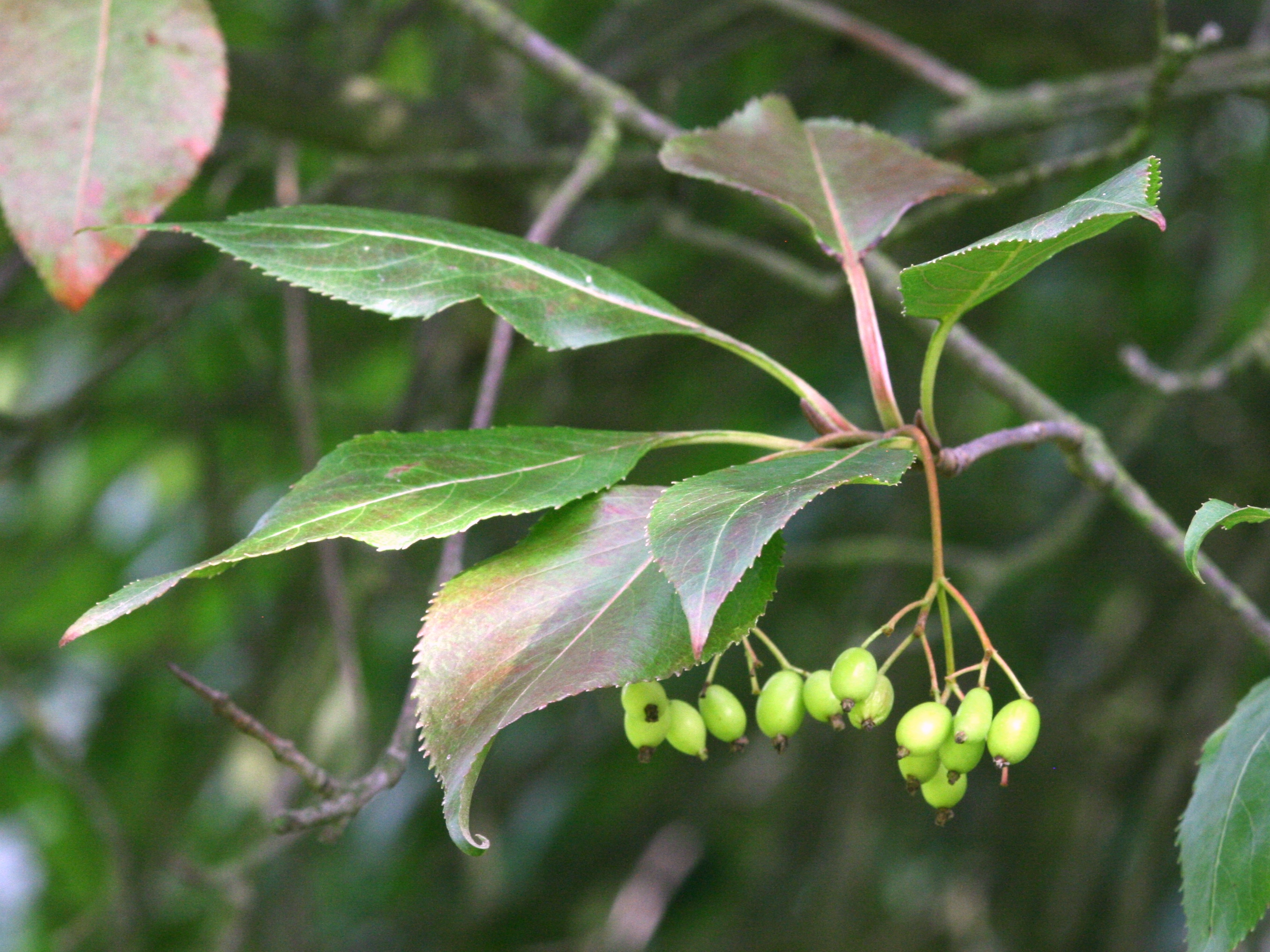 Viburnum lentago, Dendrological Garden Pruhonice, Czech Republic